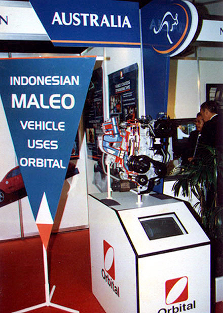 Indonesia dead car project. Maleo passenger car with Australian Orbital engine.